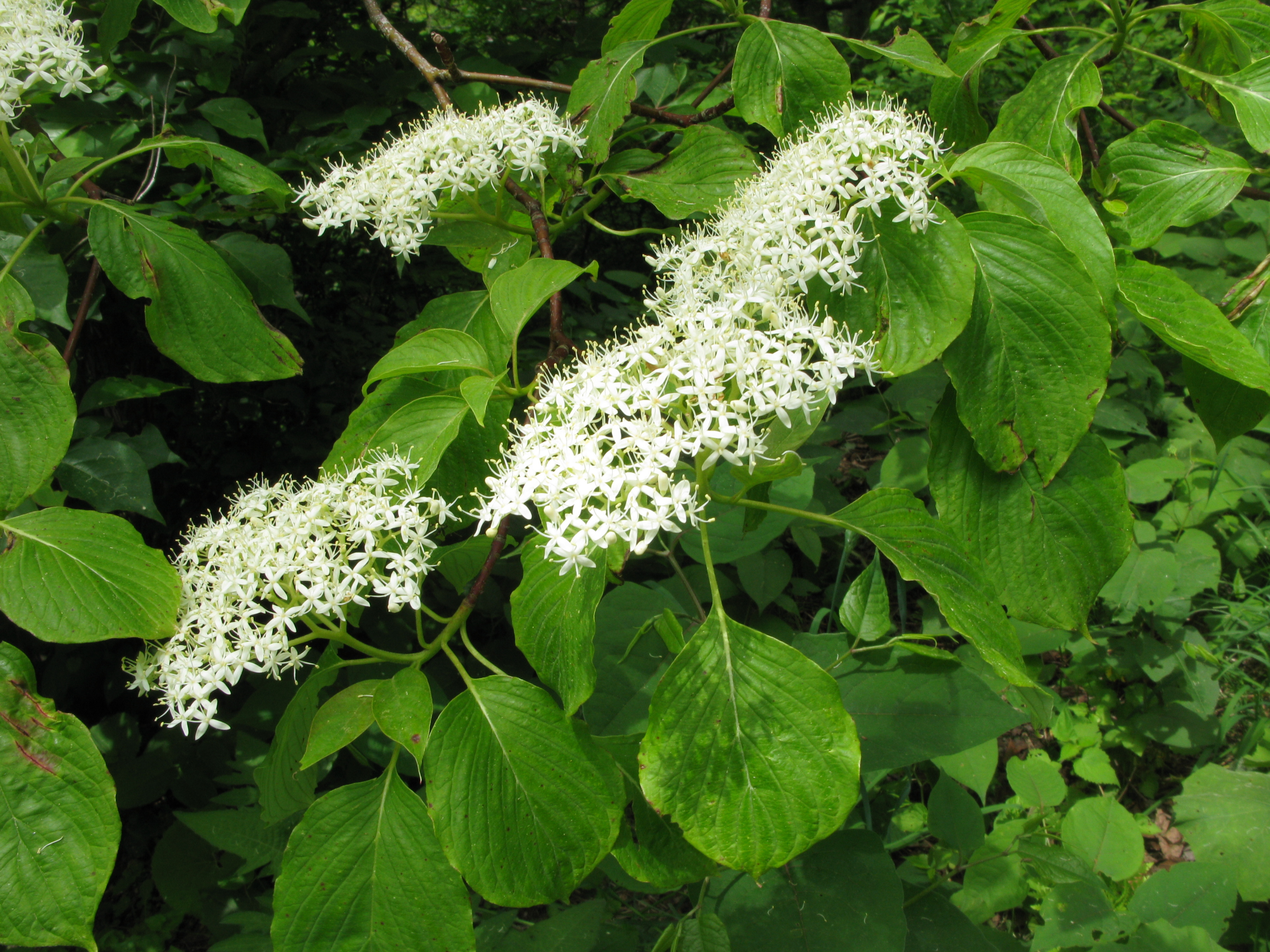 Swida controversa,Flowers,Aizu area,Fukushima pref.,Japan